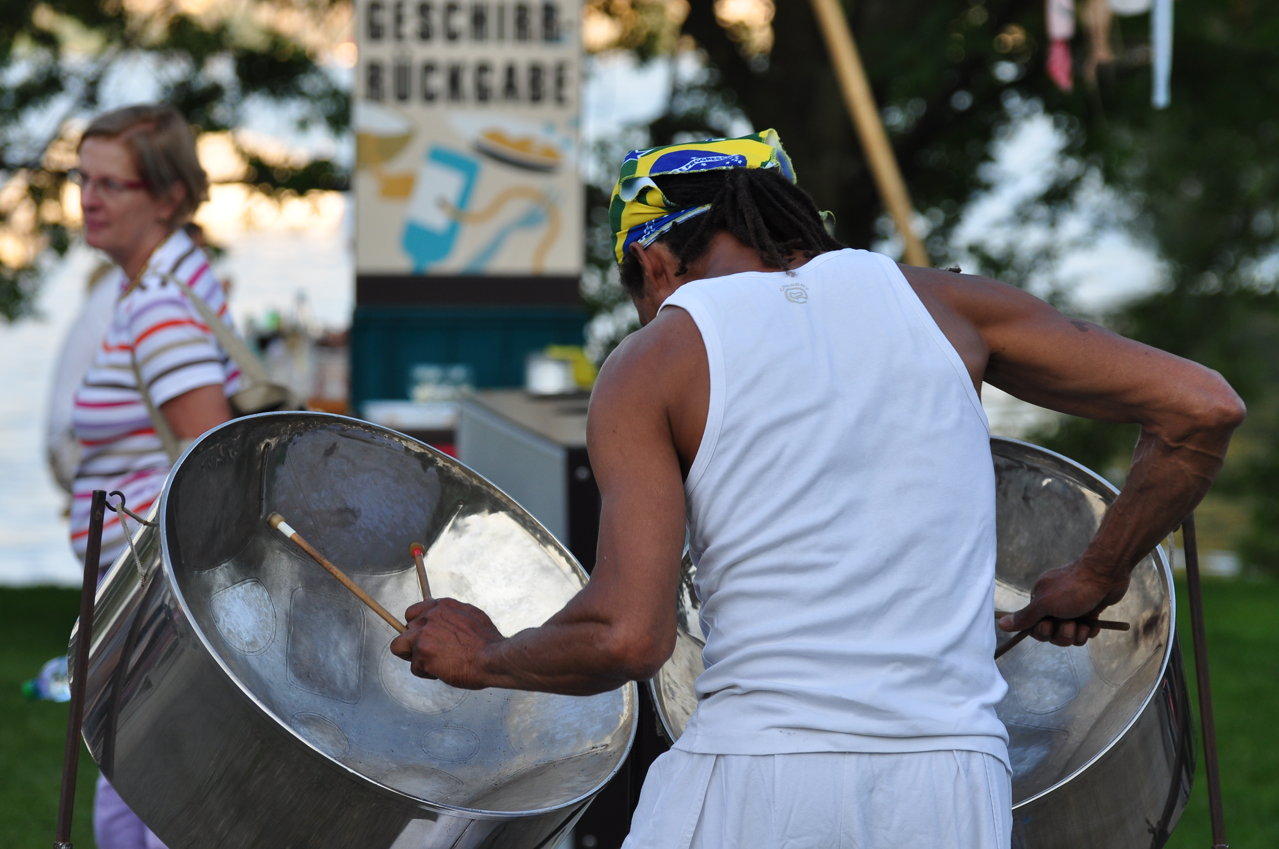 Theaterspektakel 2010 in Zürich-Wollishofen